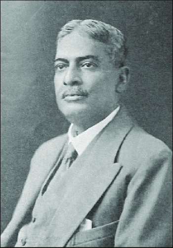 Scientist Sir Upendra Nath Brahmachari was an Indian scientist and a leading medical practitioner of his time. He synthesized Urea Stibamine (carbostibamide) in 1922 and determined that it was an effective substitute for the other antimony-containing compounds in the treatment of Kala-azar (Visceral leishmaniasis) which is caused by a protozoon, Leishmania donovani.